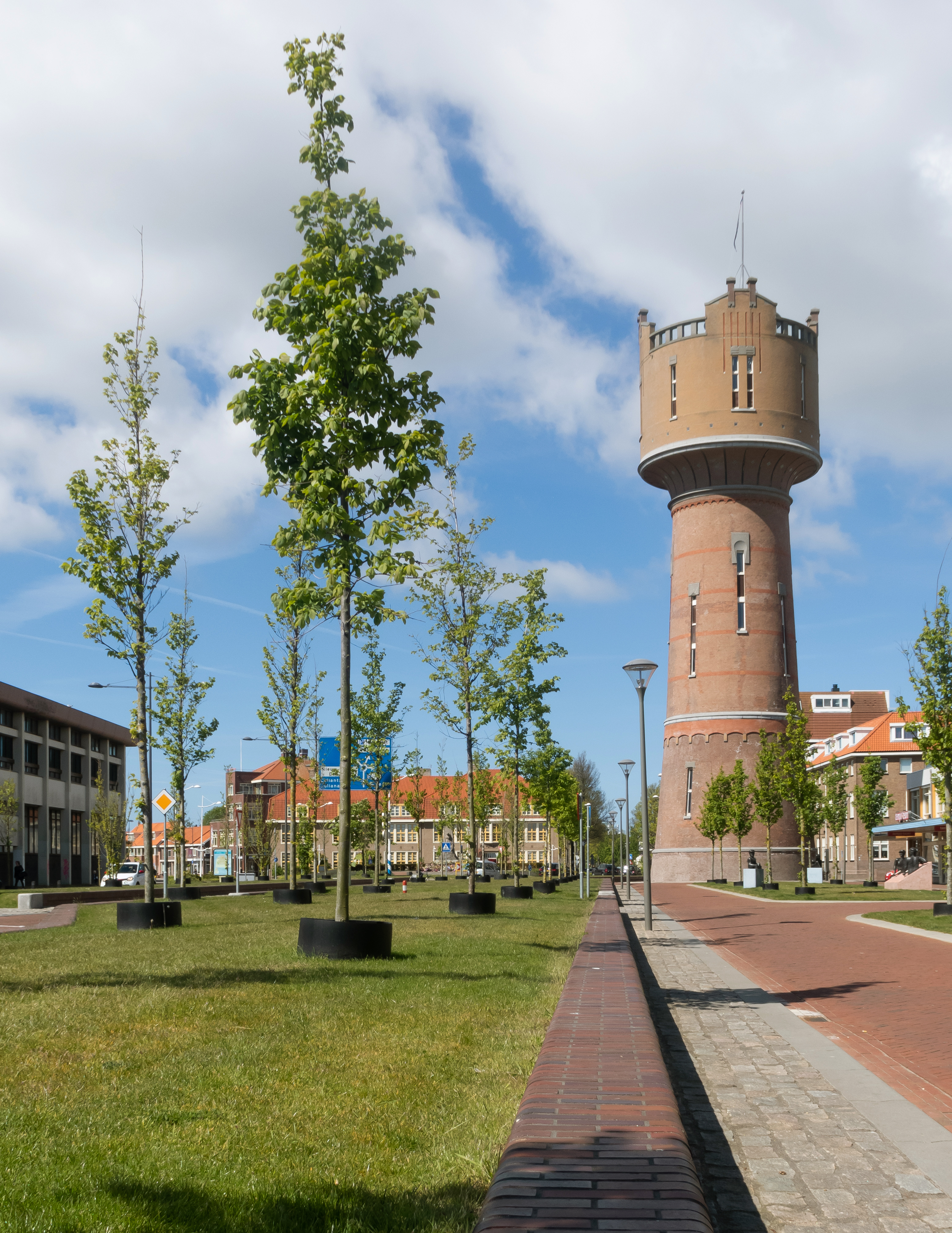 Den Helder, the water tower